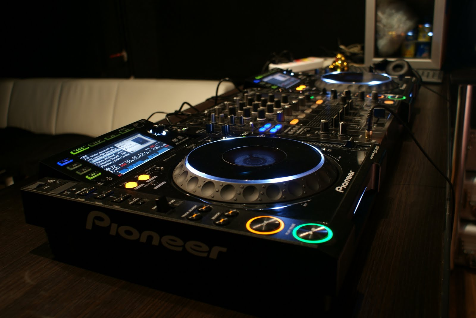 Pioneer CDJ-2000 in listing room at Filtz Studio